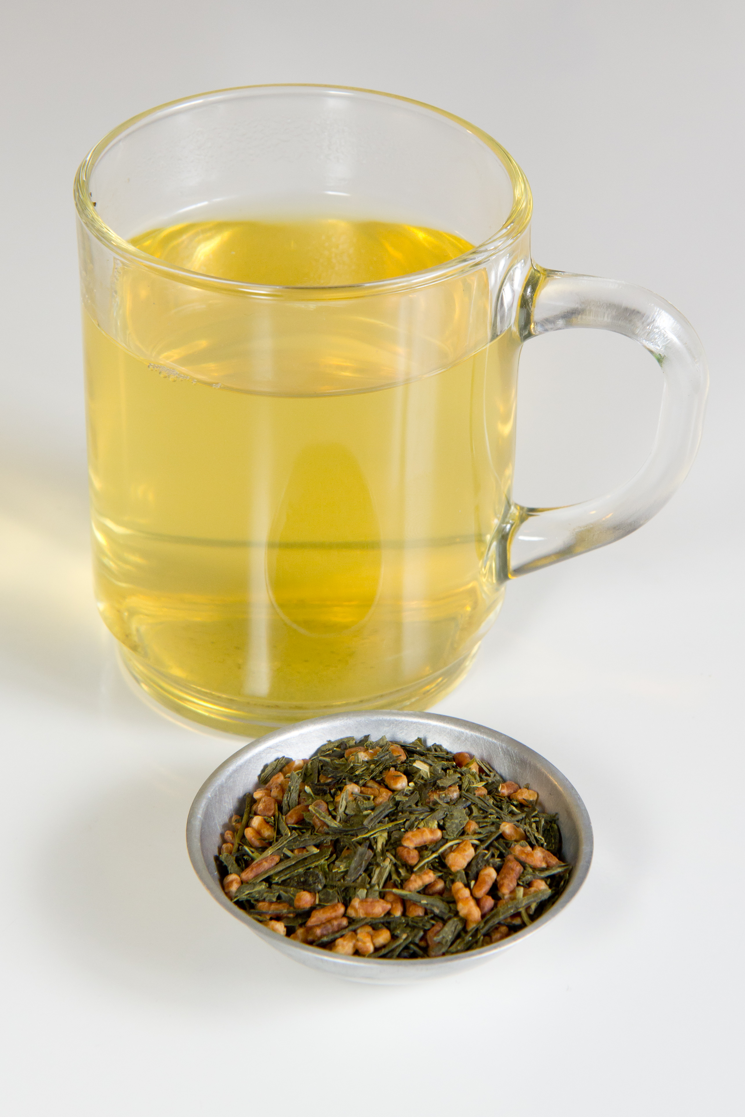 Genmaicha tea, produced by Yamamotoyama of America, both un-steeped, and steeped and strained in a clear glass mug.